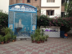 Fatima Parish Kolkata - Statue of Our Lady Of Fatima